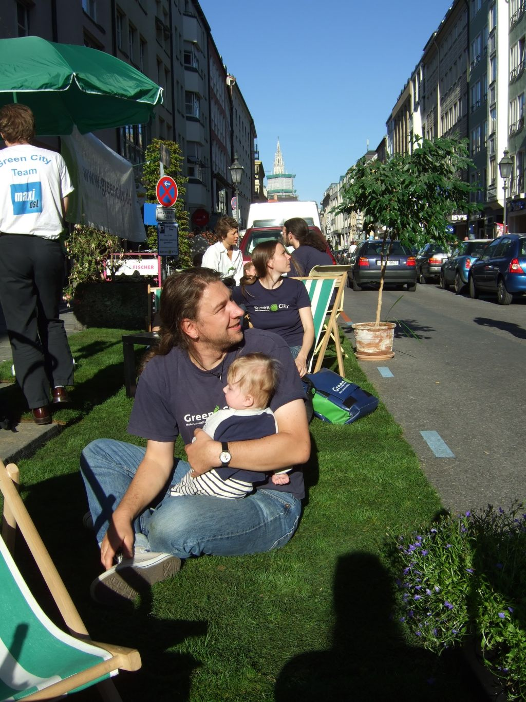 Side View on Park(ing) Day aktivity by Green City in Munich. Two Parking spaces were transformed into a small park.